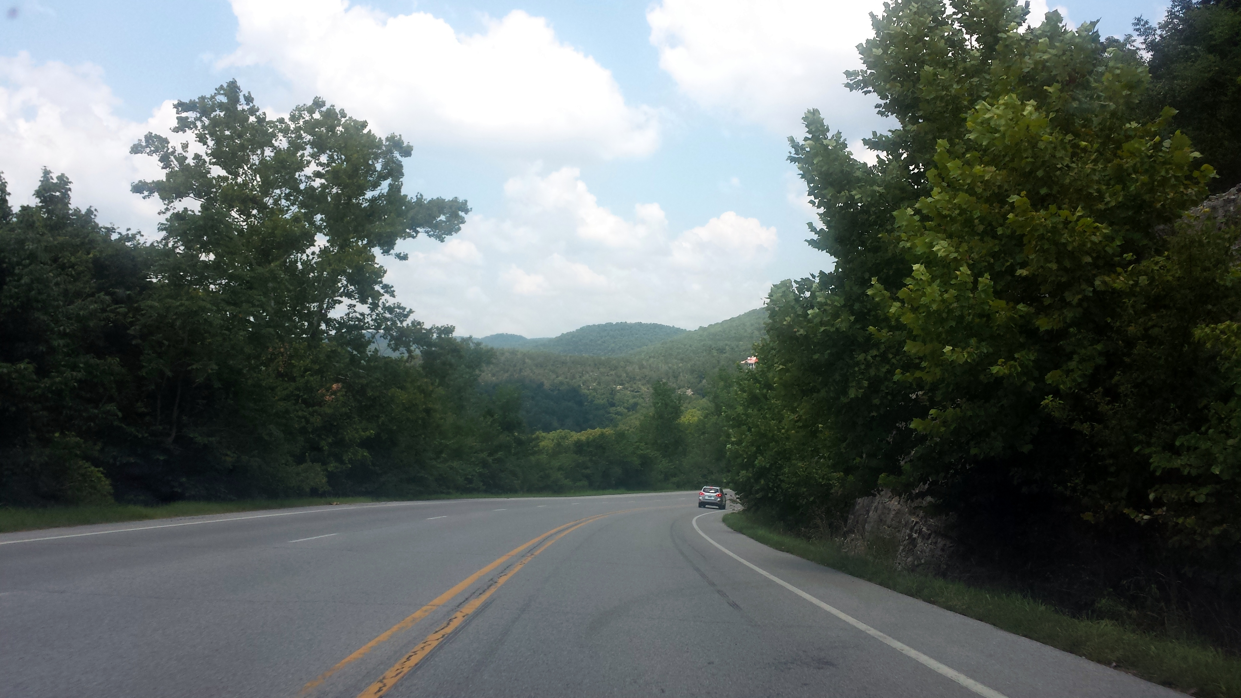 Three concurrent highways run into the Ozarks